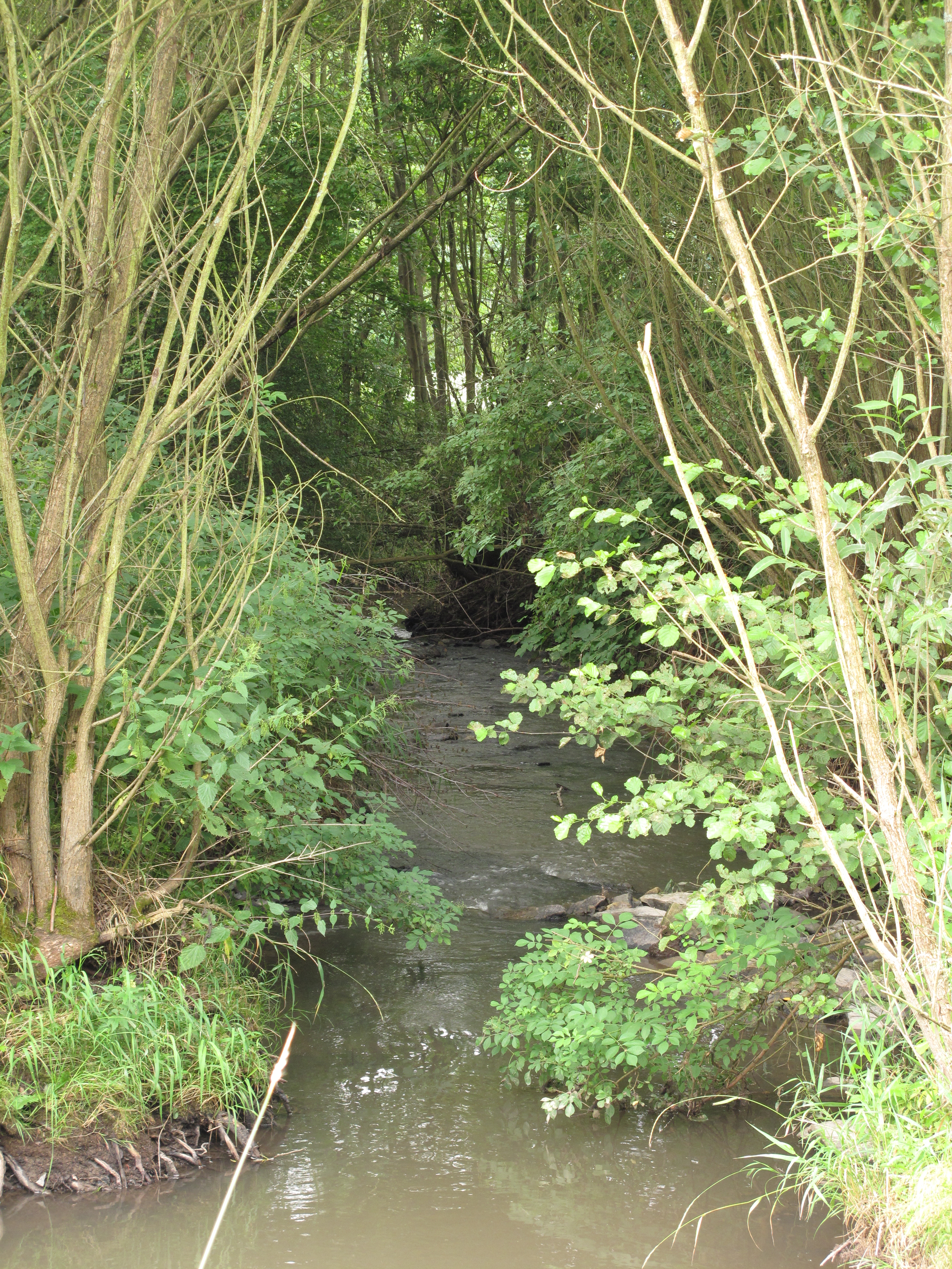 Nučický Stream in Pyskočely, Prague-East District, Czech Republic.